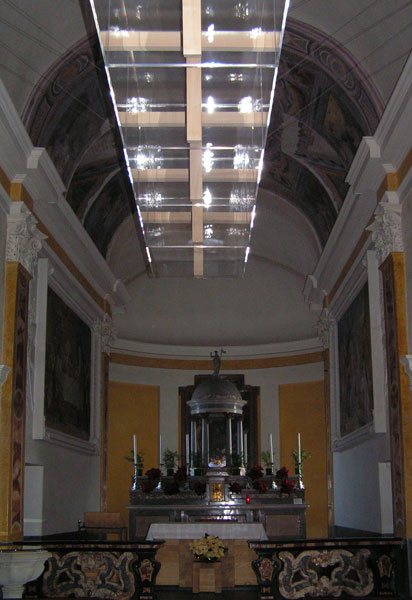 Artist :Gianfredo Camesi Title : «Via Crucis», Church SS. Quirico e Giulitta, Melide, Switzerland. 1995.